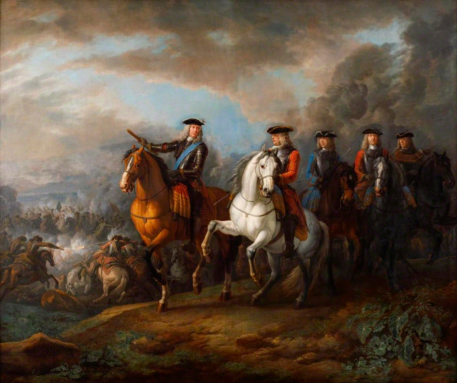 The Duke of Marlborough and the Earl of Cadogan at Blenheim (Hochstadt). Oil on canvas.